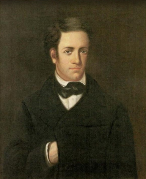 Portrait painting of the Finnish benefactor Carl Gustaf Eschner (1805–1853).